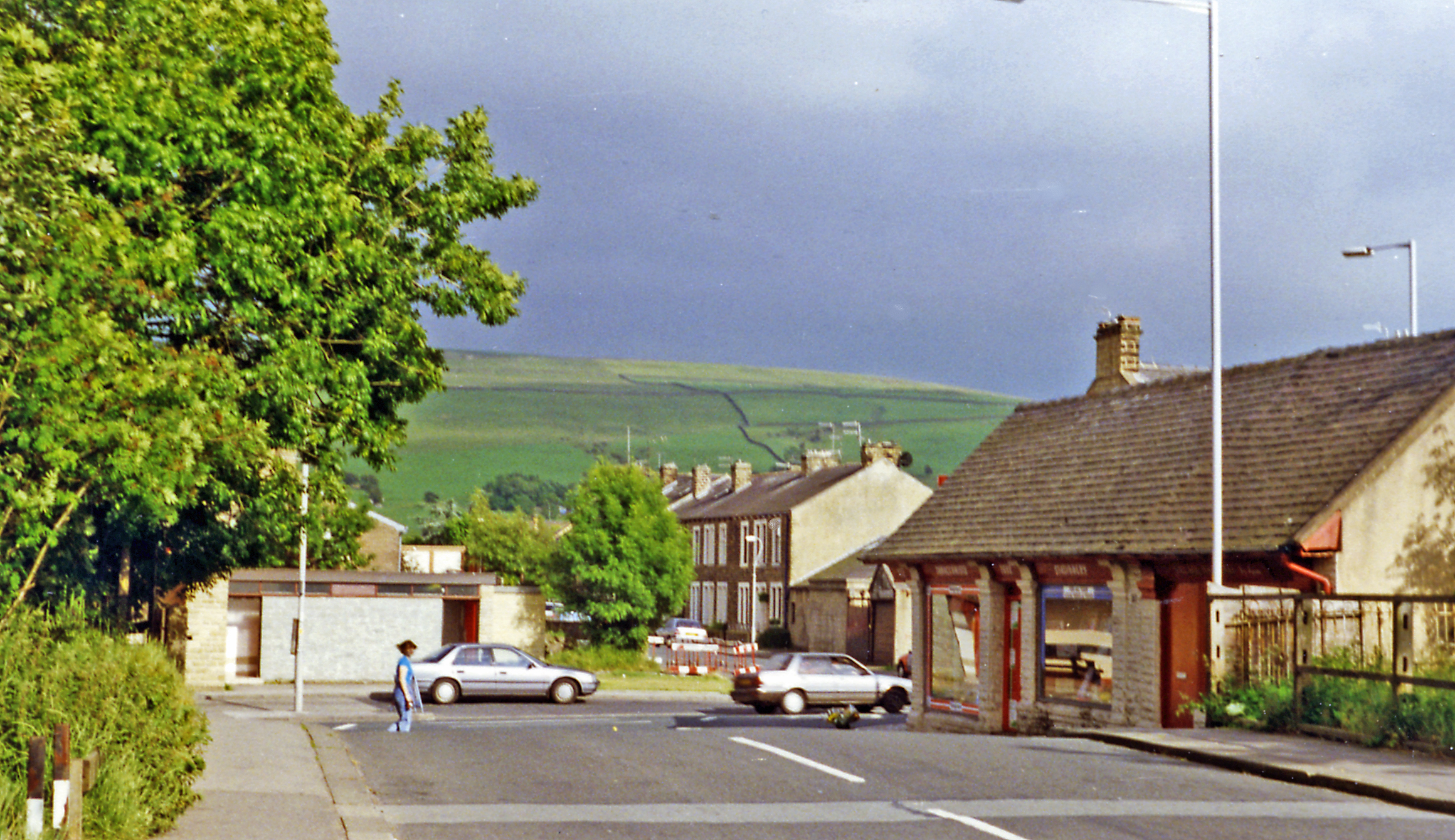 Site of former Earby station, 1996. View eastward off the A56, across the ex-Midland Skipton (to left) - Colne (to right) line, a fairly important cross-Pennine line which lasted until 2/2/70 and Earby station closed. The branch to Barnoldswick from Earby had closed 27/9/65 to passengers, to goods on 1/8/66.